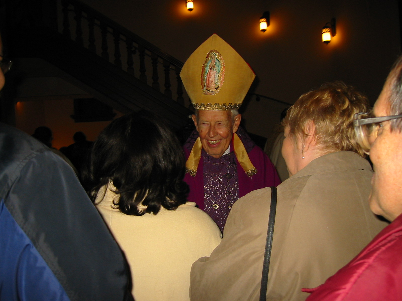 Bishop Francis Quinn at Bishop Alphonso Gallegos' cause for Beatification ceremony in Cathedral of the Blessed Sacrament in Sacramento.